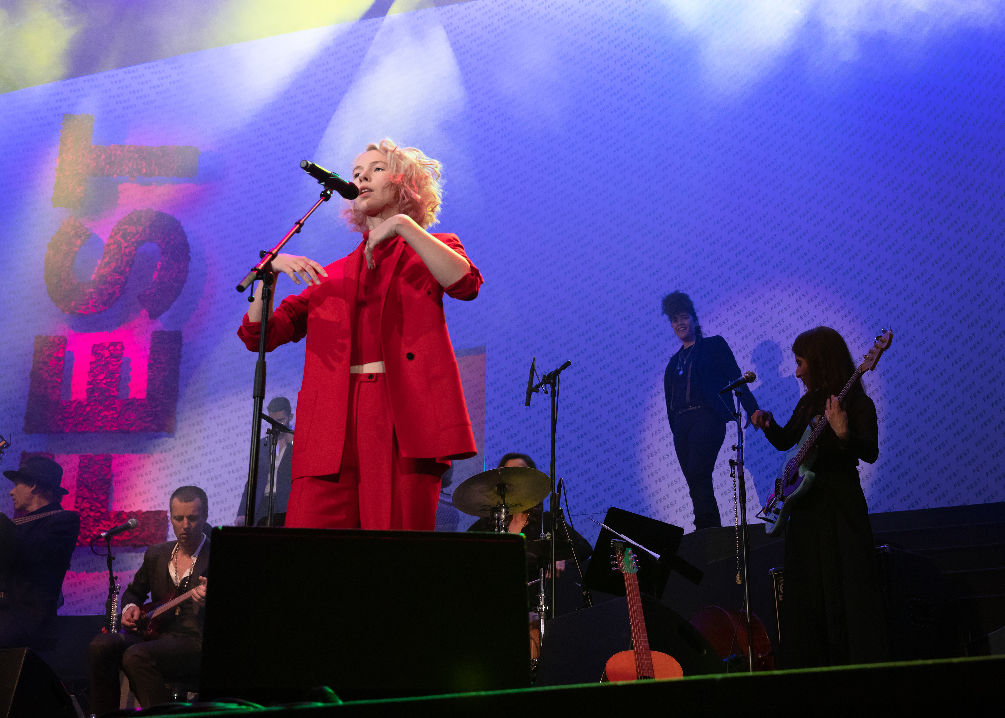 EsRap and Mira Lu Kovacs (Schmieds Puls) at the opening evening of the Vienna Festival 2018 (Rathausplatz, Vienna, Austria).